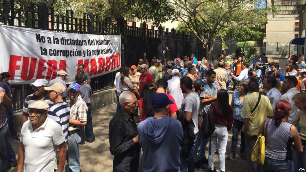 A citizen assembly organized by Frente Amplio Venezuela Libre held on 17 March 2018.